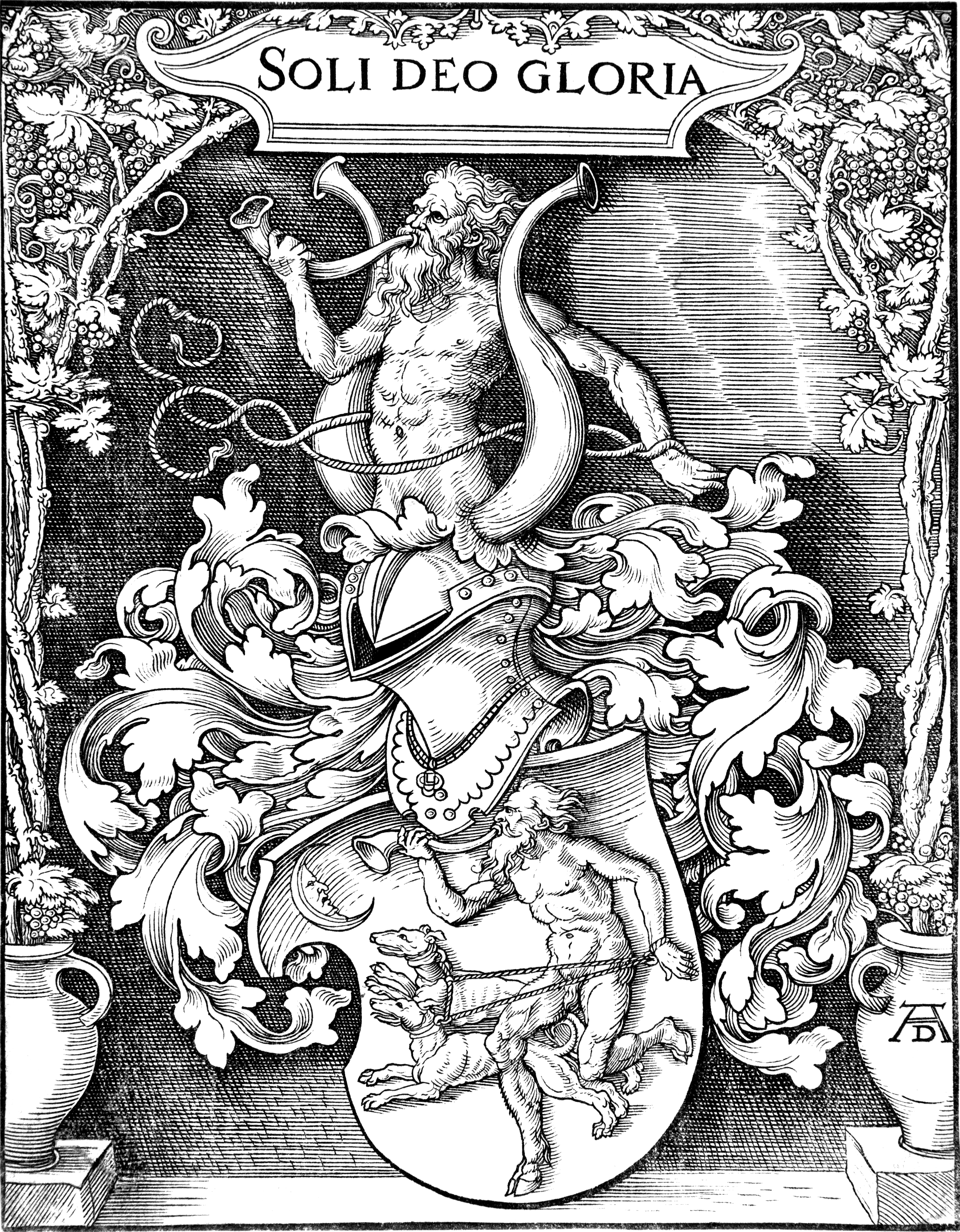 Coat of arms of Johann Tscherte